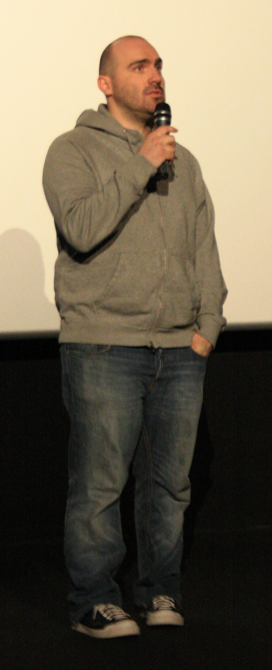 Julien Leclercq at the premiere of the french movie L'Assaut with the crew of the movie in Montigny-le-Bretonneux, France